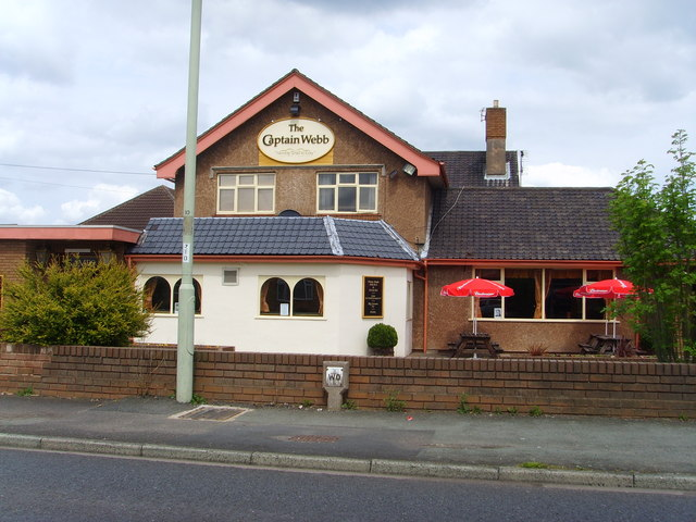 The Captain Webb Wellington Road, Wellington. The pub is named after Dawley's most famous son, Captain Matthew Webb, who in 1875 became the first person to swim the English Channel. Captain Webb died in 1883.